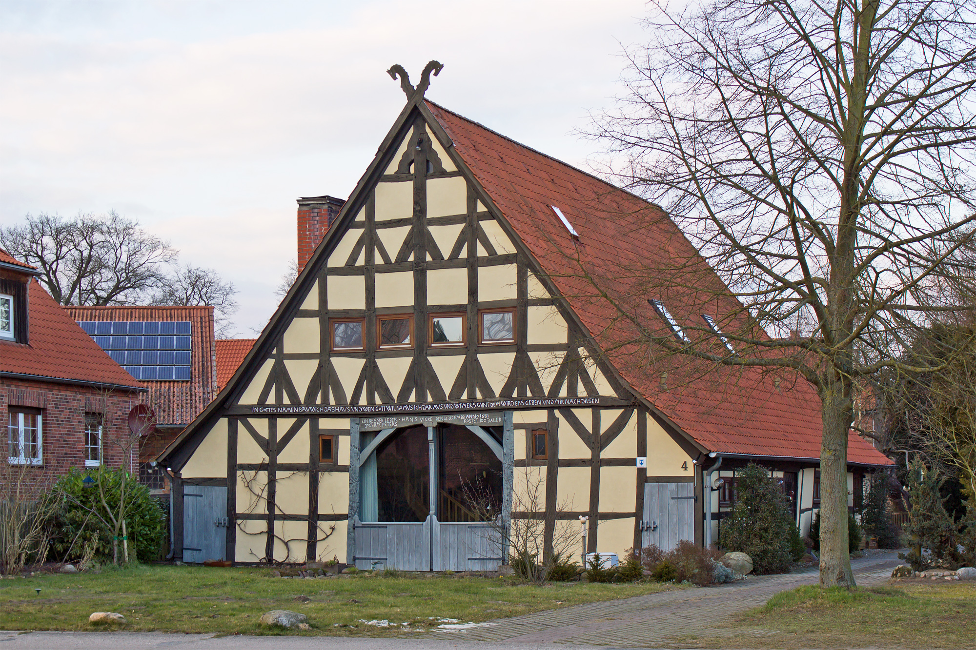 Cultural heritage monument "Rundling 4" in the village Jameln (district Lüchow-Dannenberg, northern Germany); built in 1681.